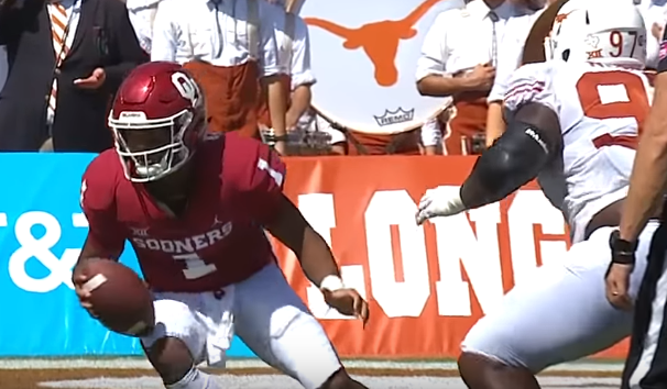 Kyler Murray vs Texas Oct 6, 2018